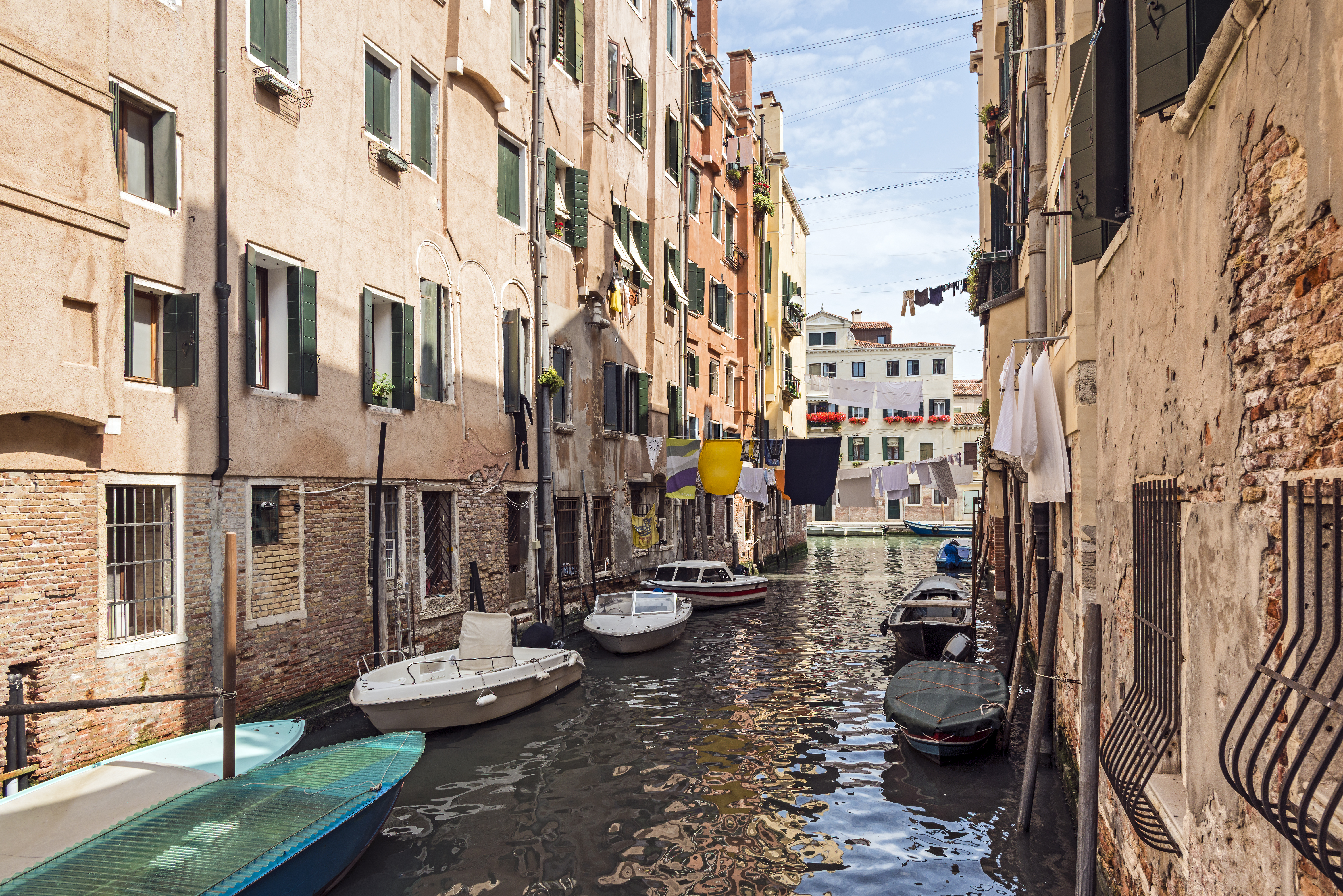 Rio del Gheto, seen from Ponte de Gheto Novissimo to Rio de San Girolamo, Venice.